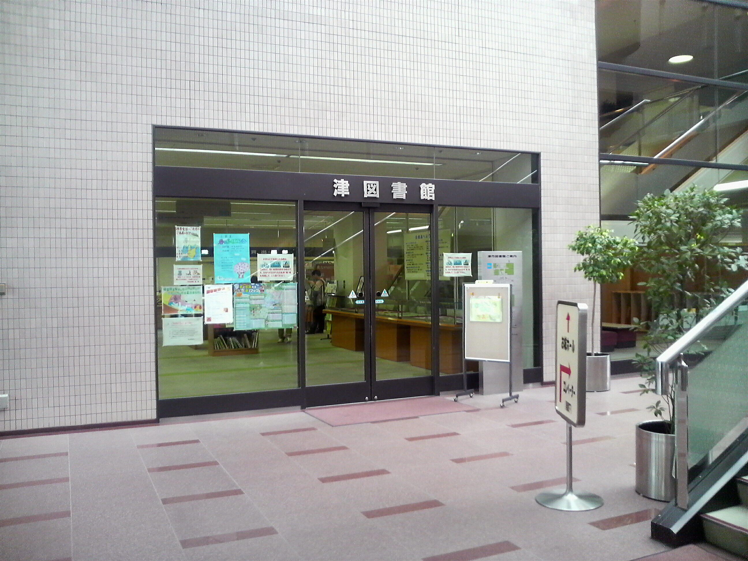 Entrance of "Tsu City Tsu Library" in "Tsu Region Plaza" in Tsu City, Mie Prefecture, Japan.